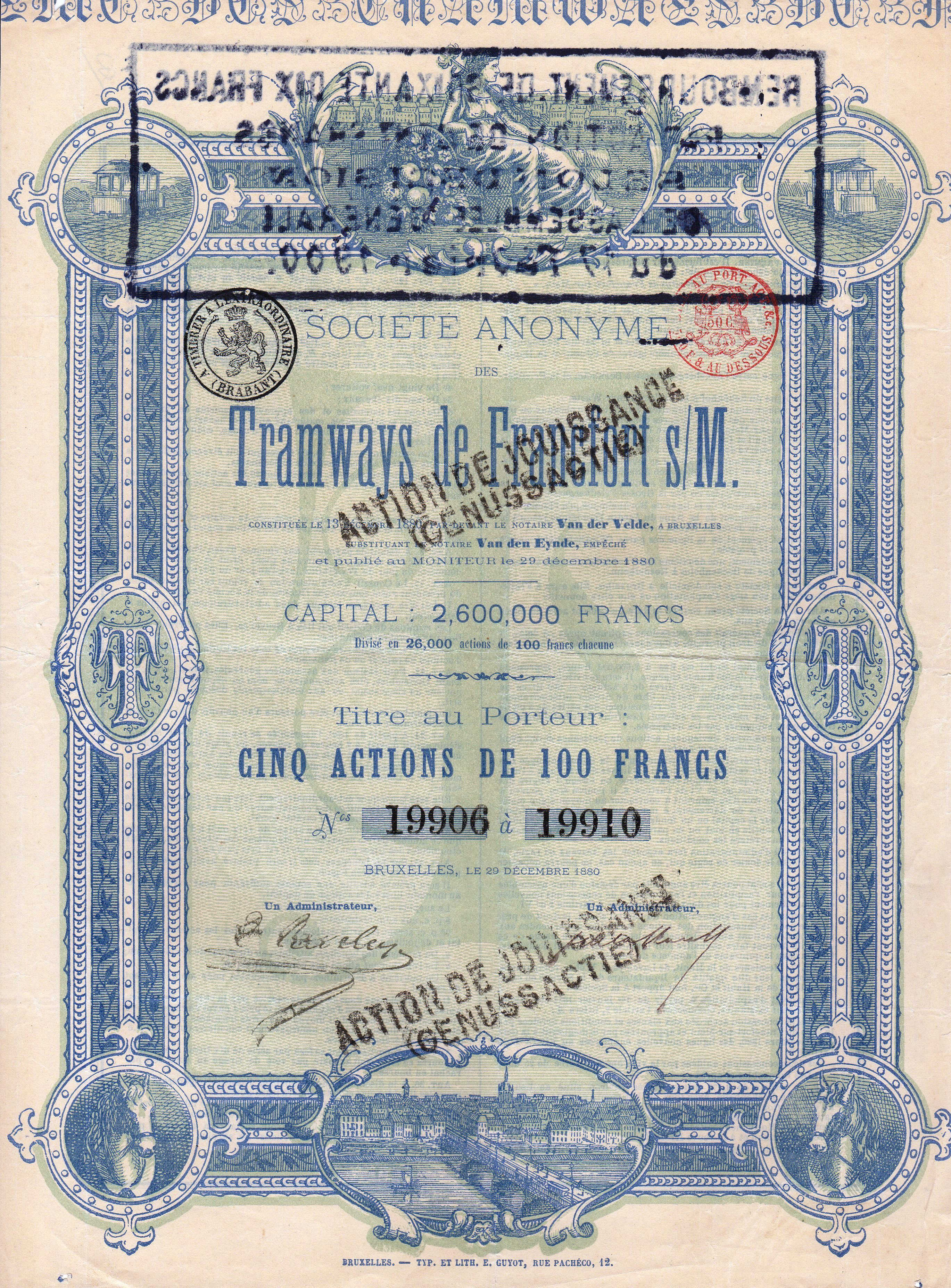 Share of the S.A. des Tramways de Francfort s/M., issued 29. December 1880